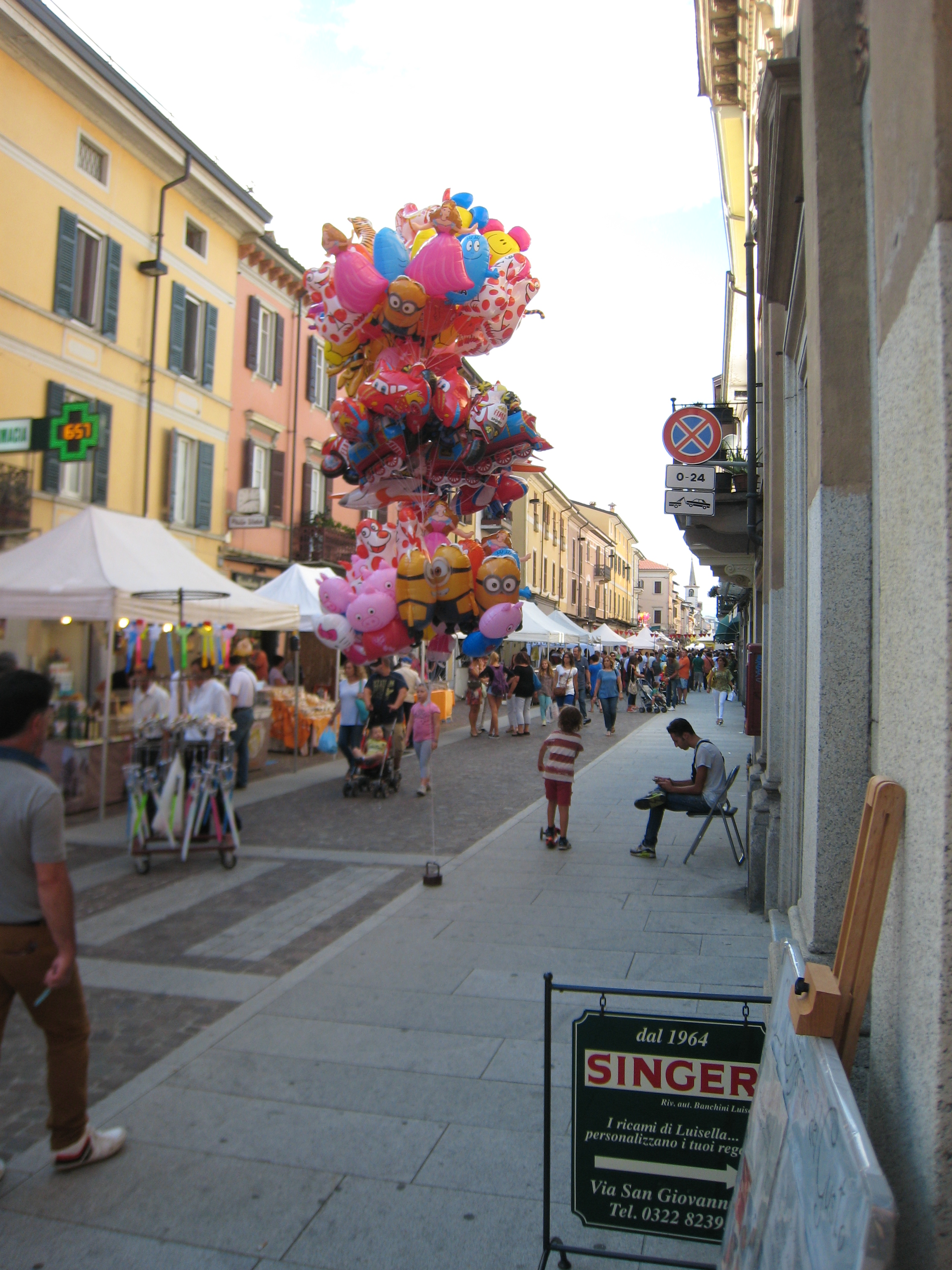 Roma Street